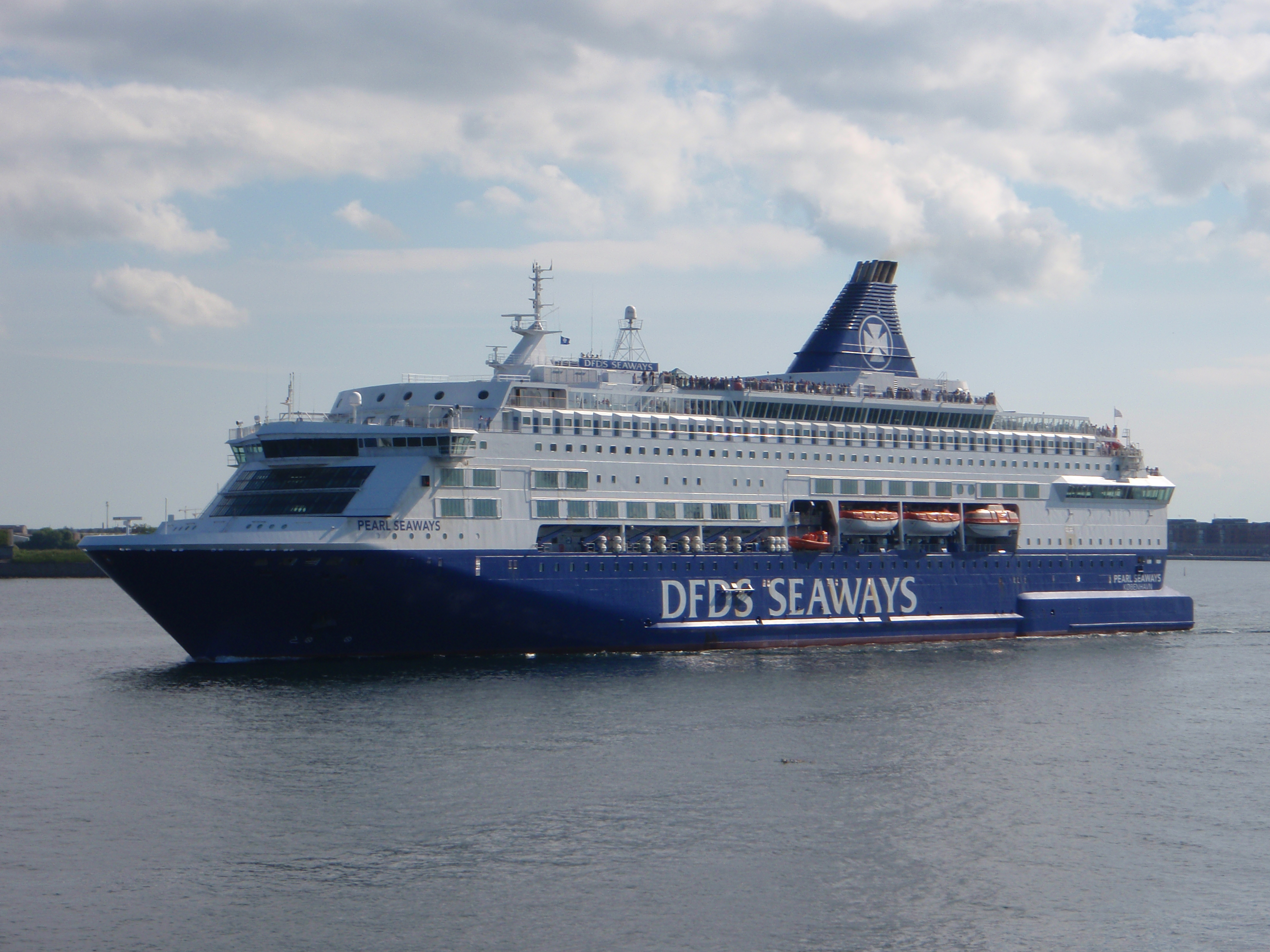 Pearl Seaways departing from Copenhagen. Saturday, June 7, 2014. Oceankaj.